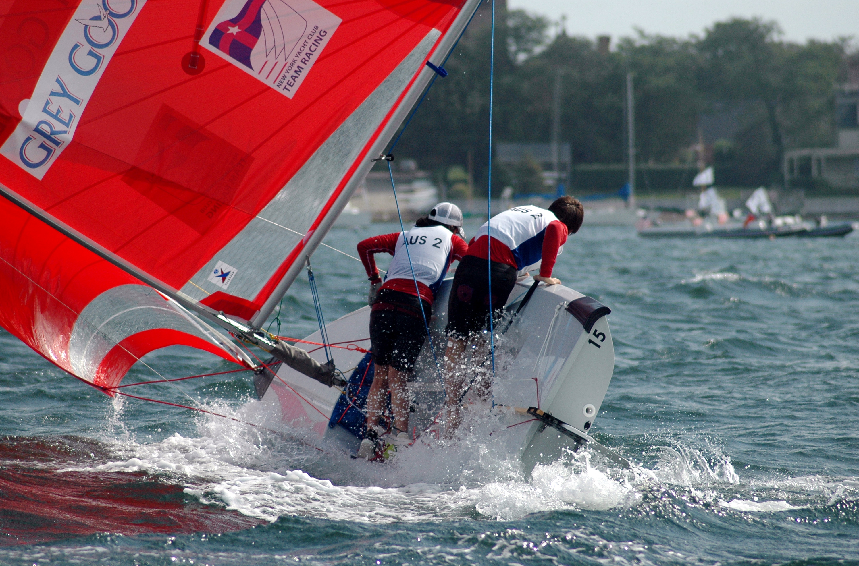 A team at the 2005 ISAF Team Racing World Championship narrowly avoids capsizing.